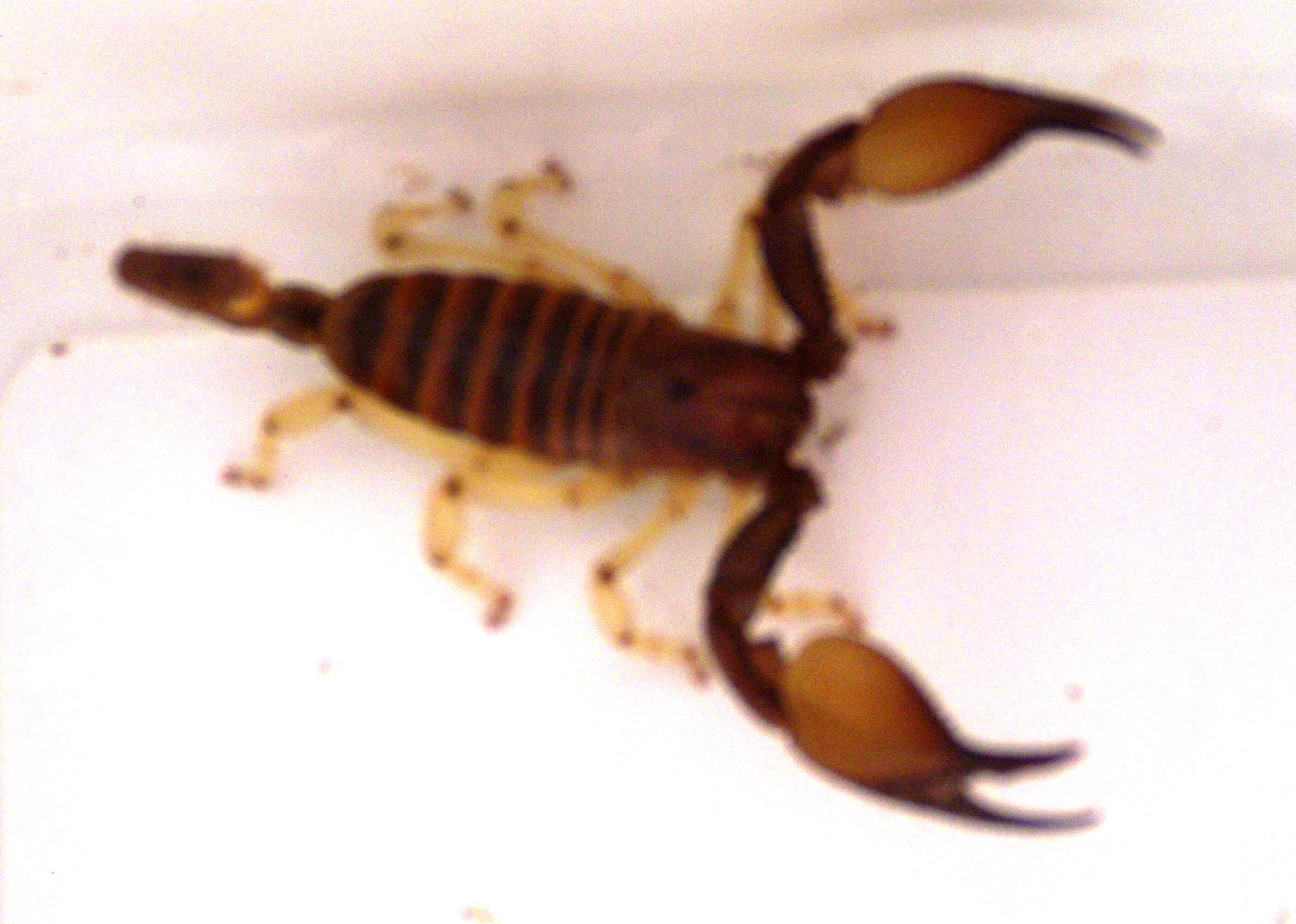 A male O. carinatus near Usakos, Namibia